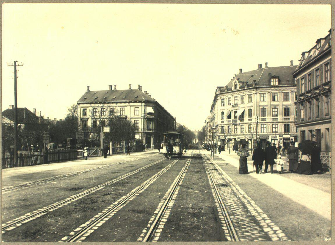 Allégade in Frederiksberg, Denmark, looking towards the intersection with Gammel Kongevej(Smallegade.